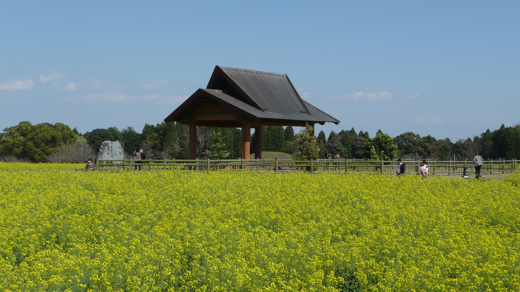 55th Tree-Planting Festival - O'nodatesho (Saitobaru Kofungun - Saito City, Miyazaki, Japan)